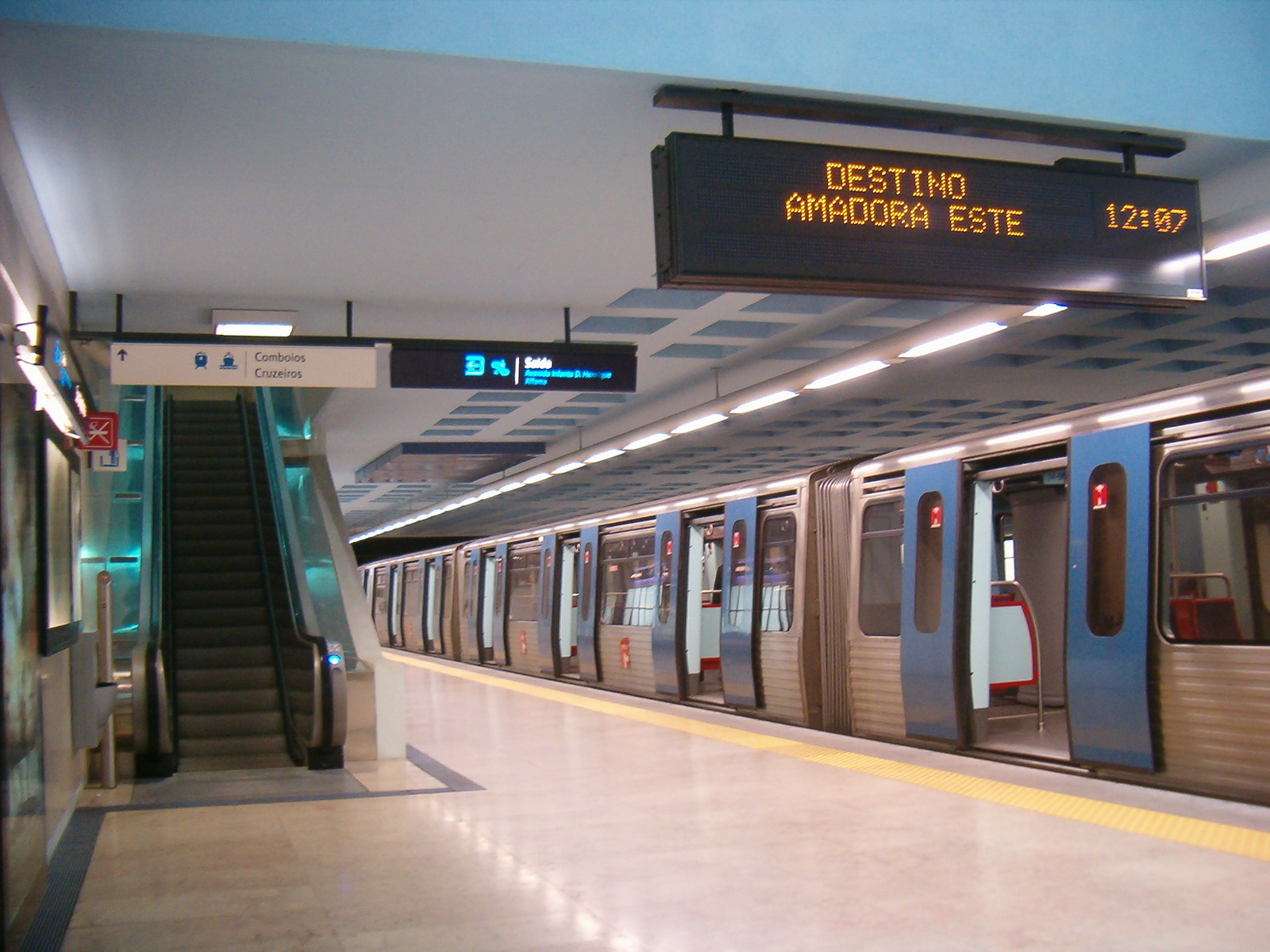 Metro station Santa Apolónia (Lisboa)